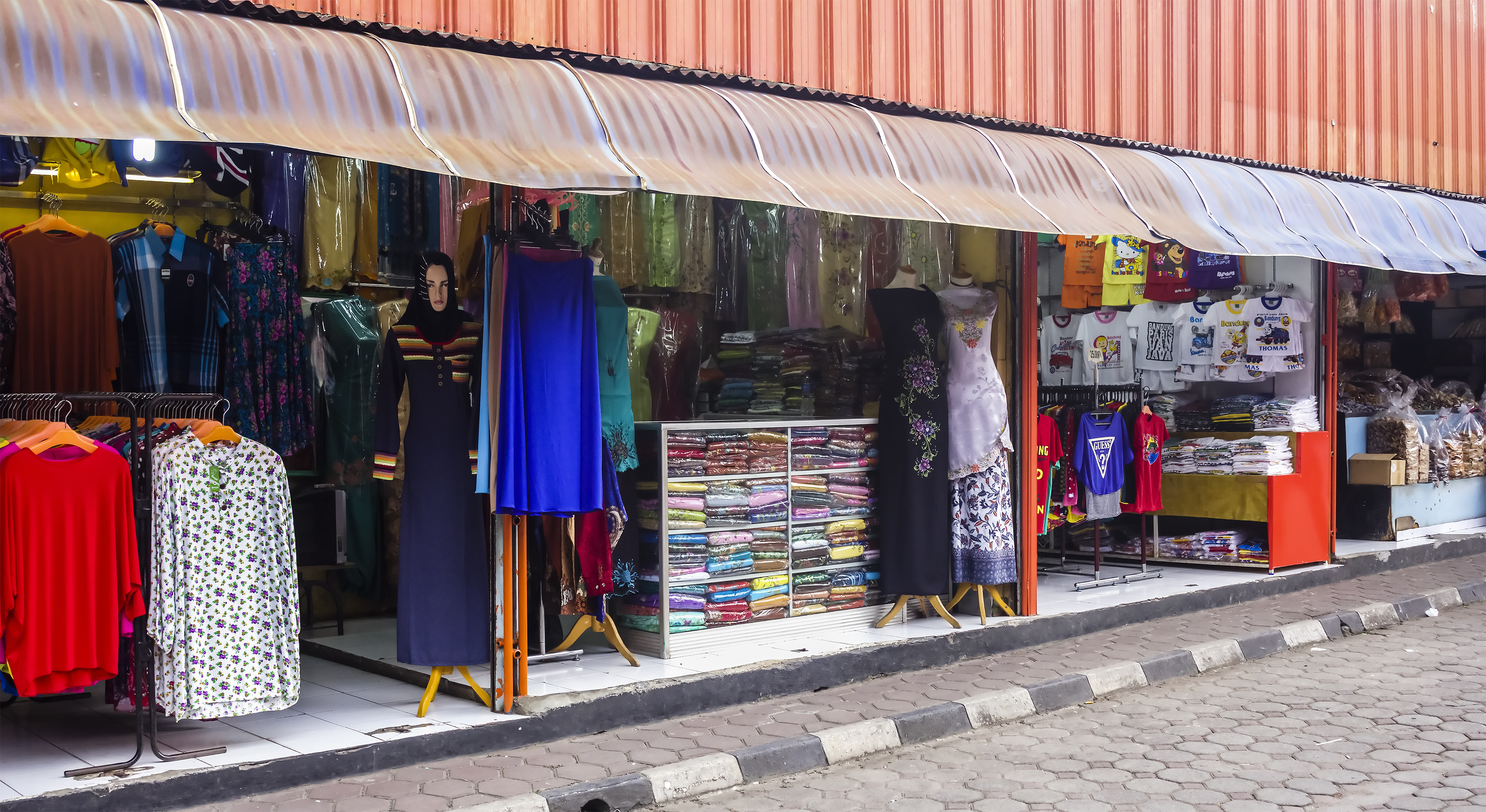 Row of Shops in Cibaduyut, Bandung, 2014-08-21